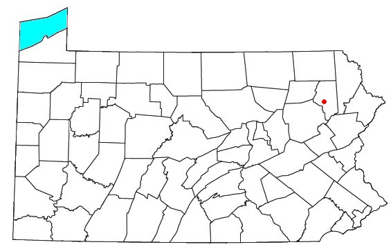 Locator map for Scranton, Pennsylvania, United States.